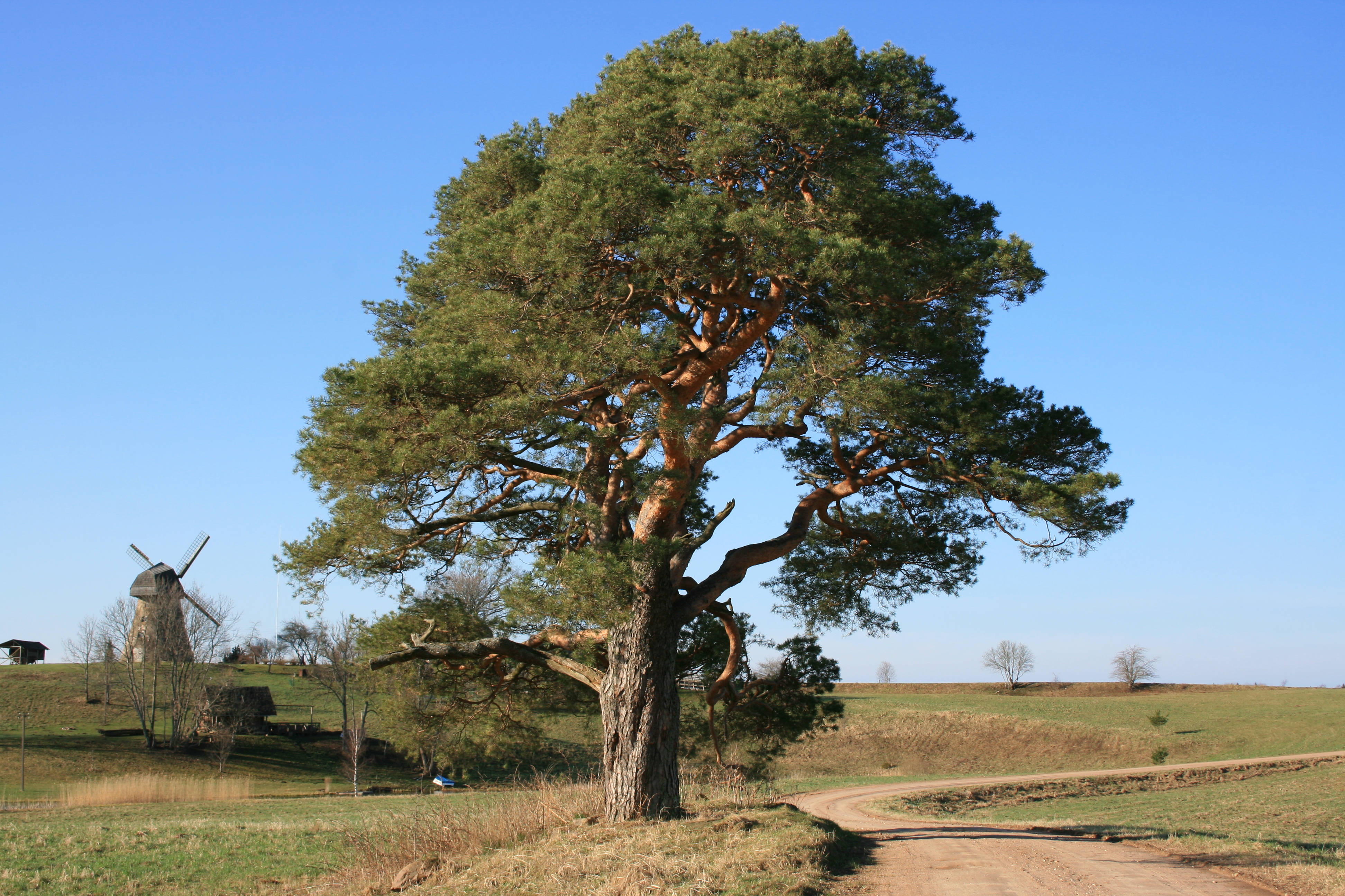 Zviedru pine in Āraiši, Latvia